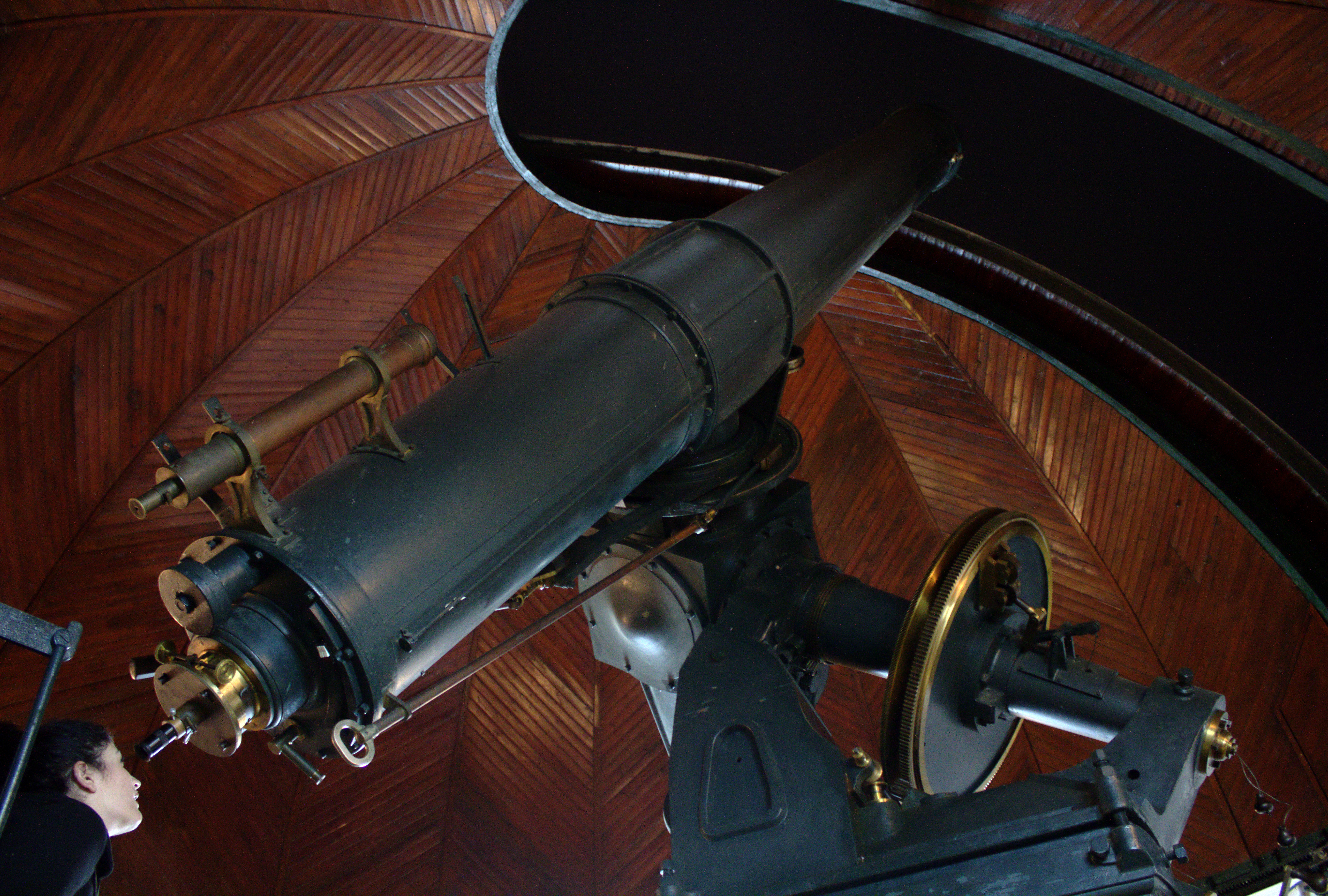 Amateur astronomer observes moon's surface with the observatory's telescope. Amateur astronomers make a contribution to the science of astronomy mainly by observating variable stars, tracking asteroids and discovering transient objects, such as comets and also with other activities like astrophotography .(Doridis telescope, National Observatory of Athens, Greece.)